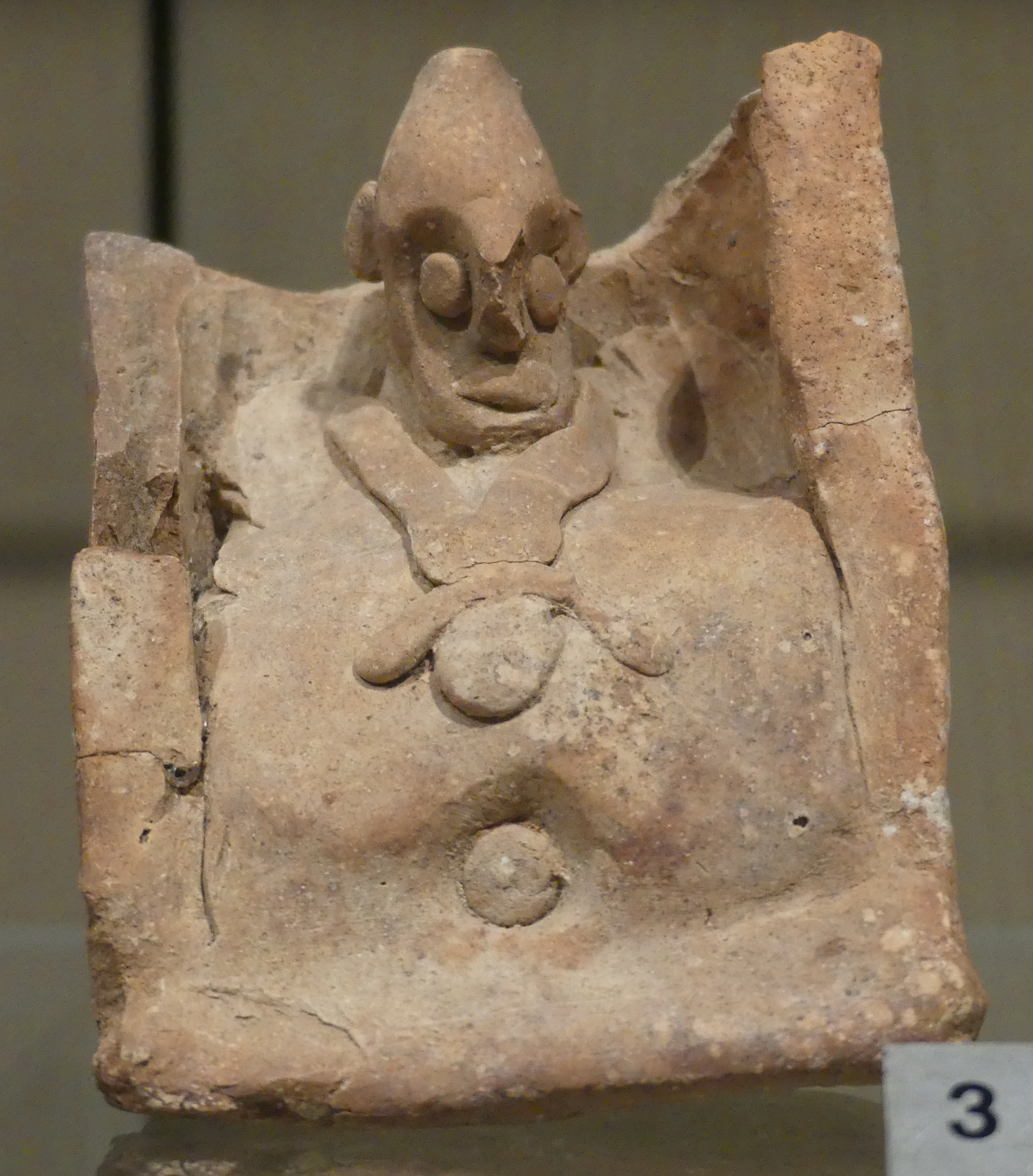 Figurine of a Deity, Tyre, 7th c. B.C., on display at the National Museum of Beirut, Lebanon